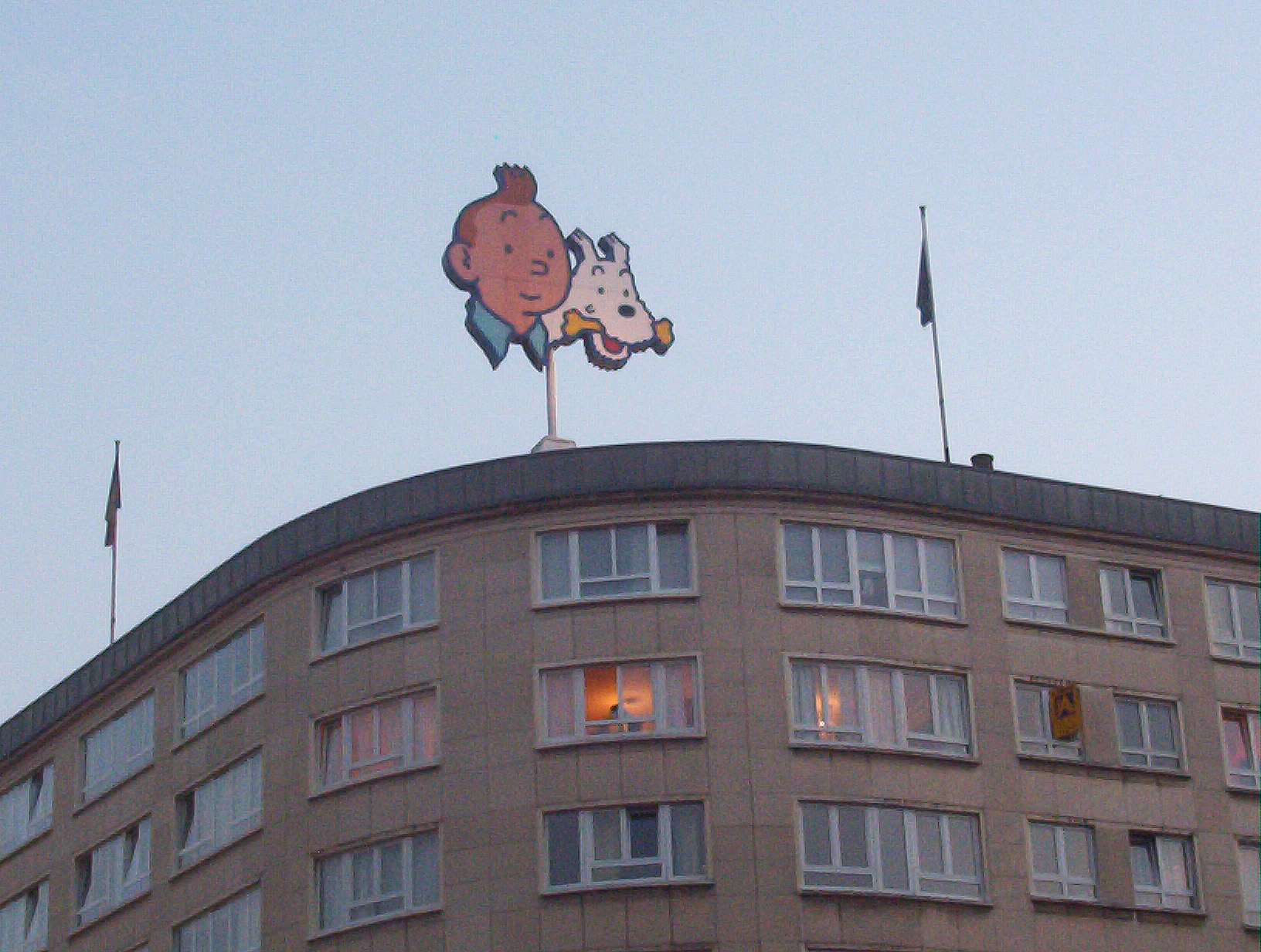 Tintin advert on a building in Bruxelles